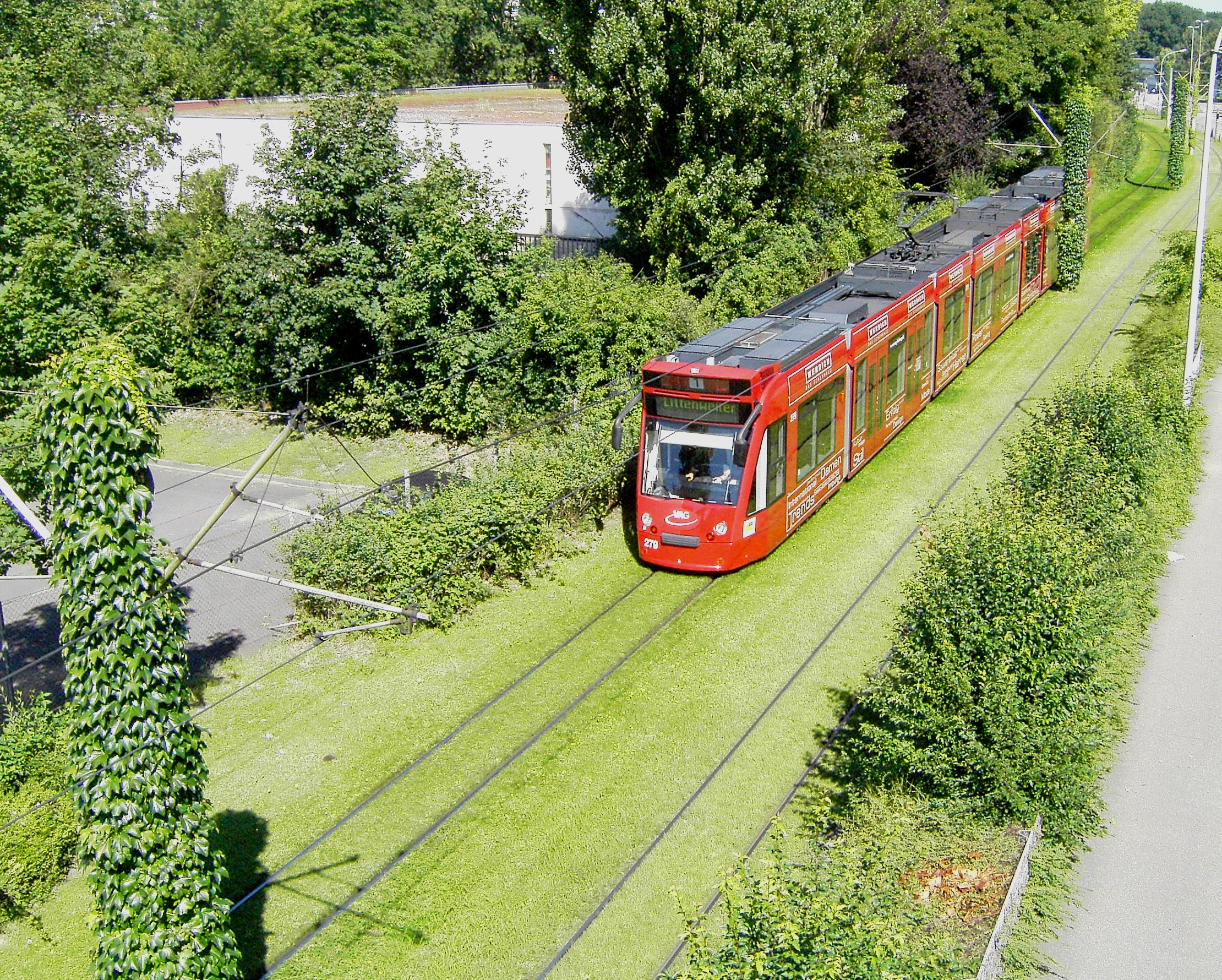 A Combino tram on grassed track